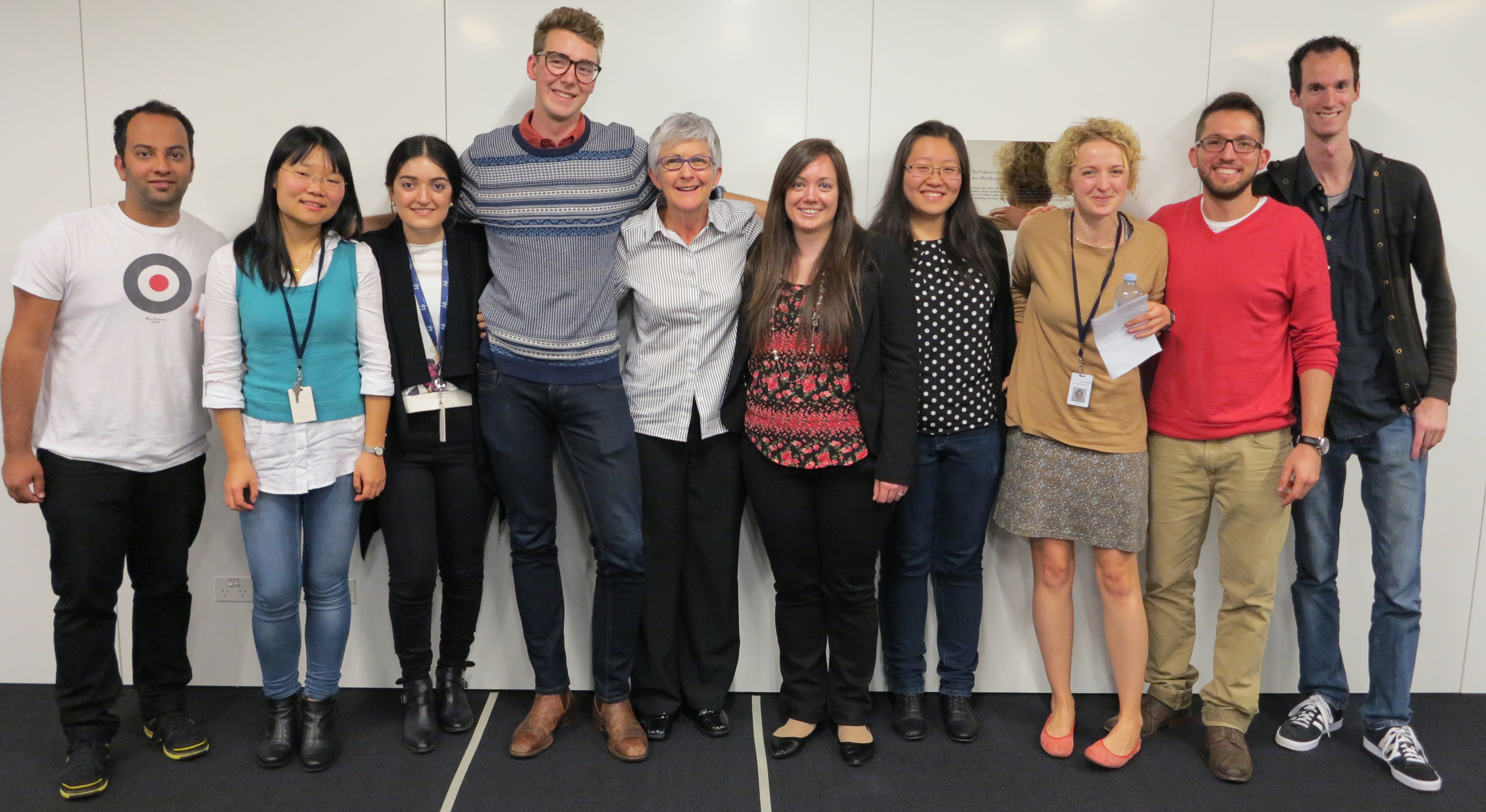 UNSW Australia students from the Garvan Institute of Medical Research, Victor Chang Cardiac Research Institute and St Vincent's Centre for Applied Medical Research with their three minute thesis mentor.